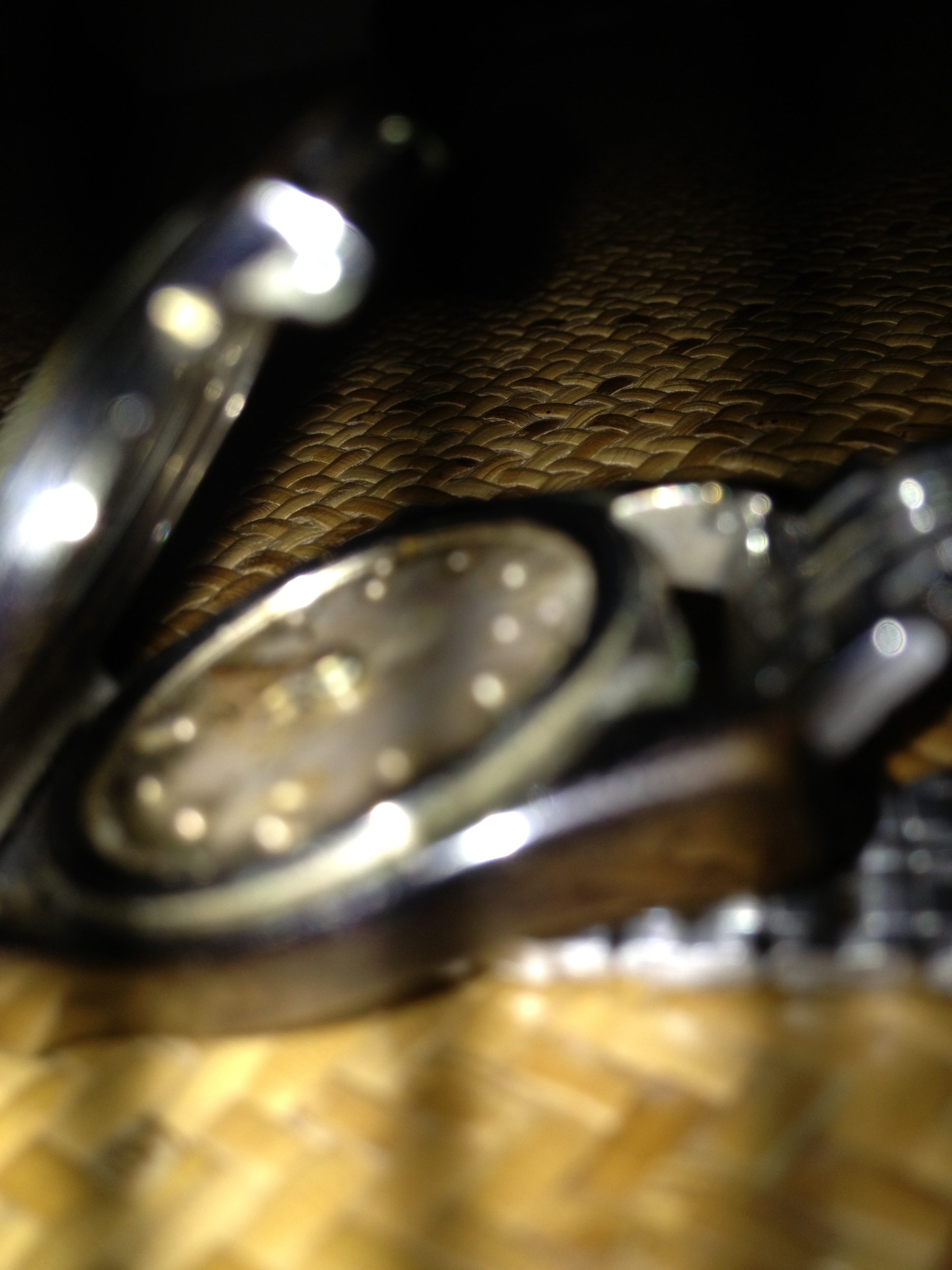 An opened braille watch. Protruding dots, but not real braille, are shown on the dial.